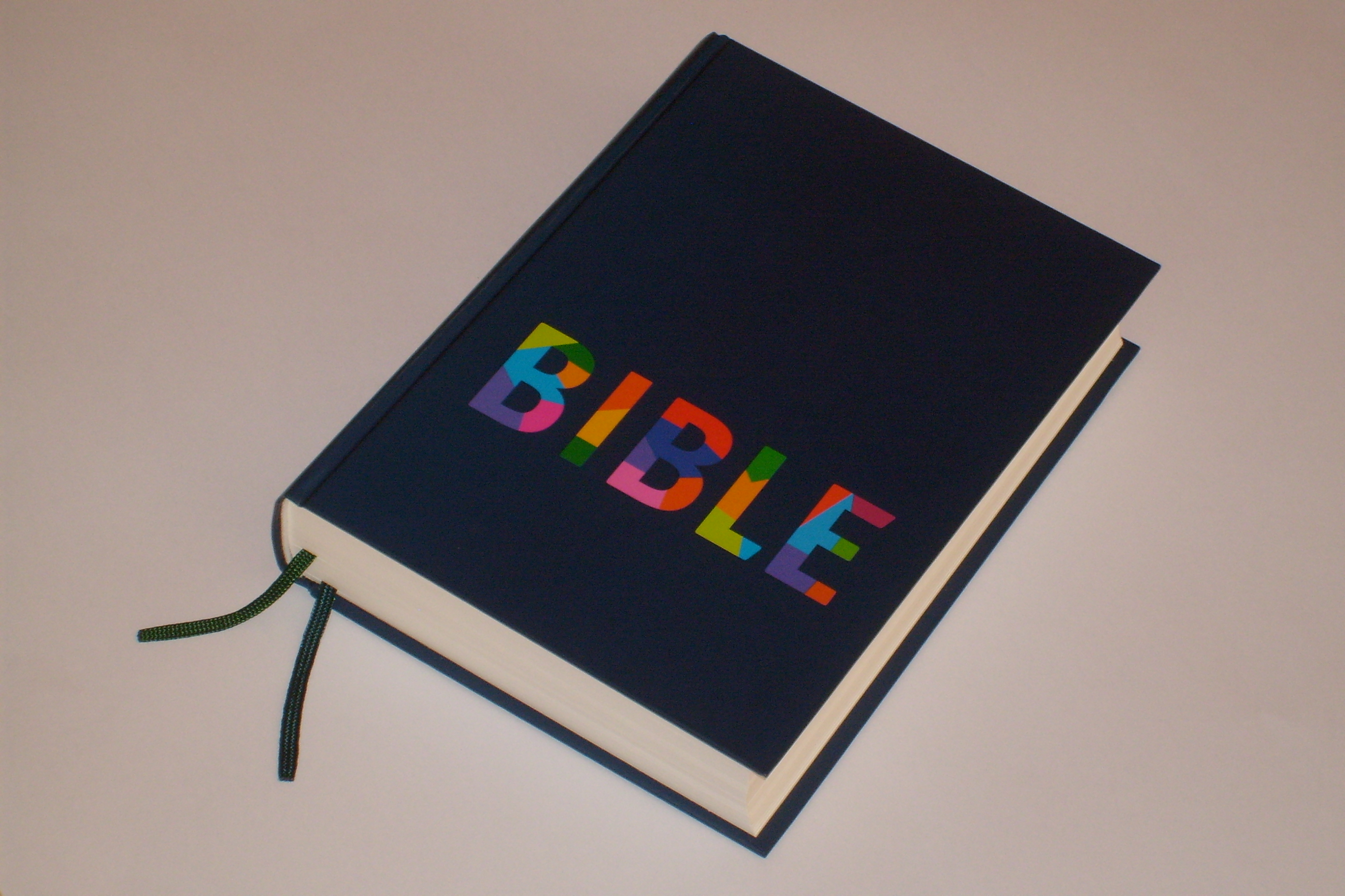 The study translation Bible 2009